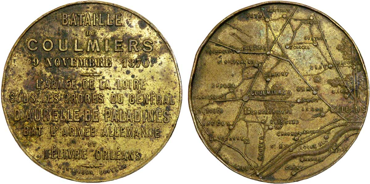 Description avers : Inscription en dix lignes : bataille/ DE/ COULMIERS/ 9 NOVEMBRE 1870/ L’ARMÉE DE LA LOIRE/ SOUS LES ORDRES DU GÉNÉRAL/ D’AURELLE DE PALADINES/ BAT L’ARMÉE ALLEMANDE/ ET/ DÉLIVRE ORLEANS ; signature HERLUISON EDITEUR . Description revers : Carte des environs de Coulmiers .